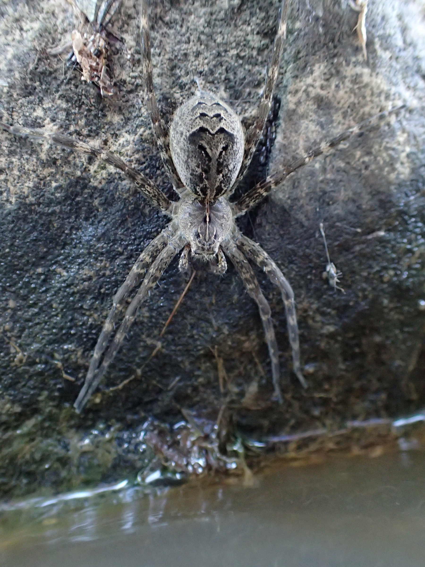 Dolomedes scriptus